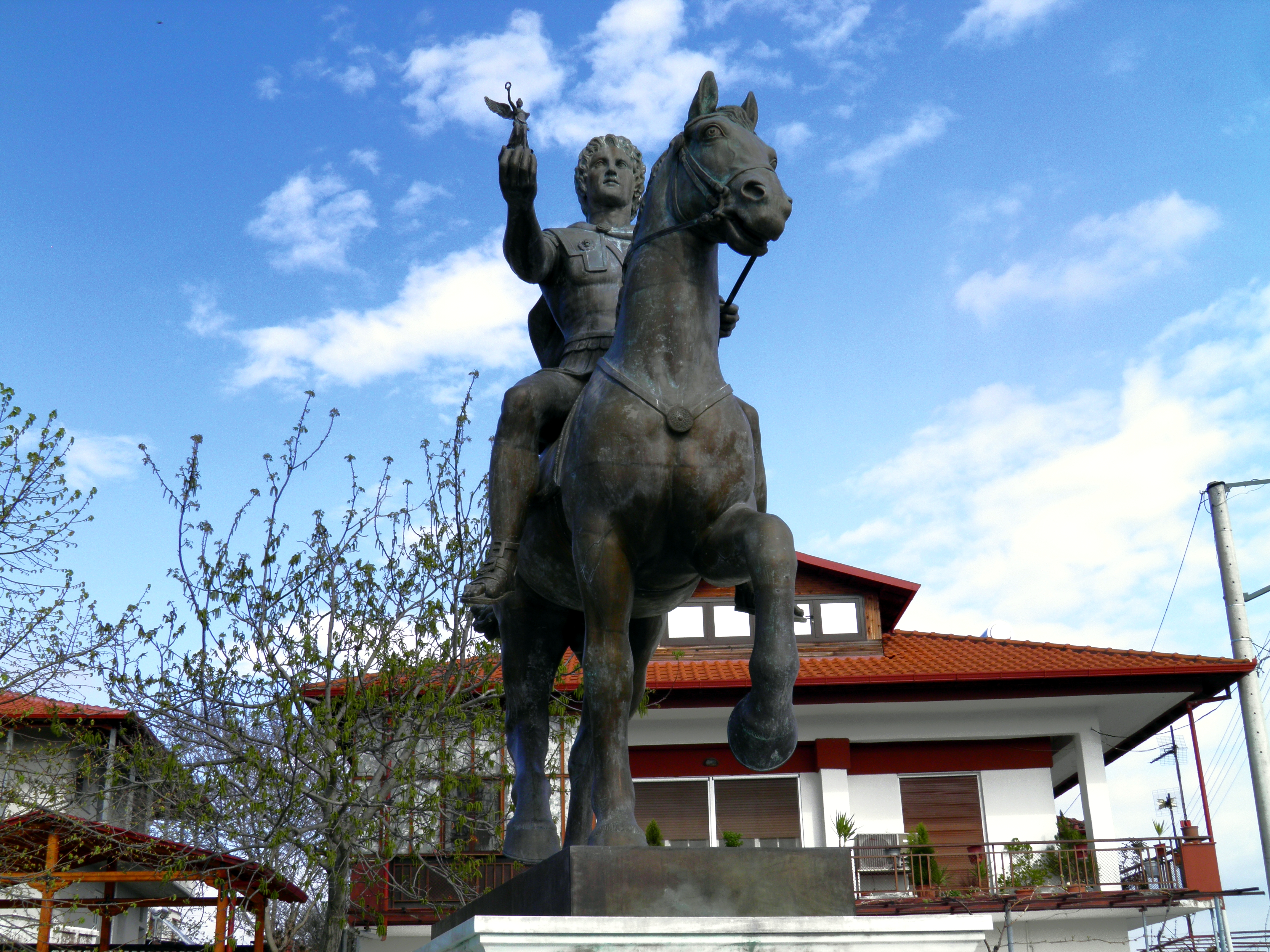 Statue of Alexander the Great riding Bucephalus and carrying a winged statue of Nike (square of Alexander the Great) in Pella city